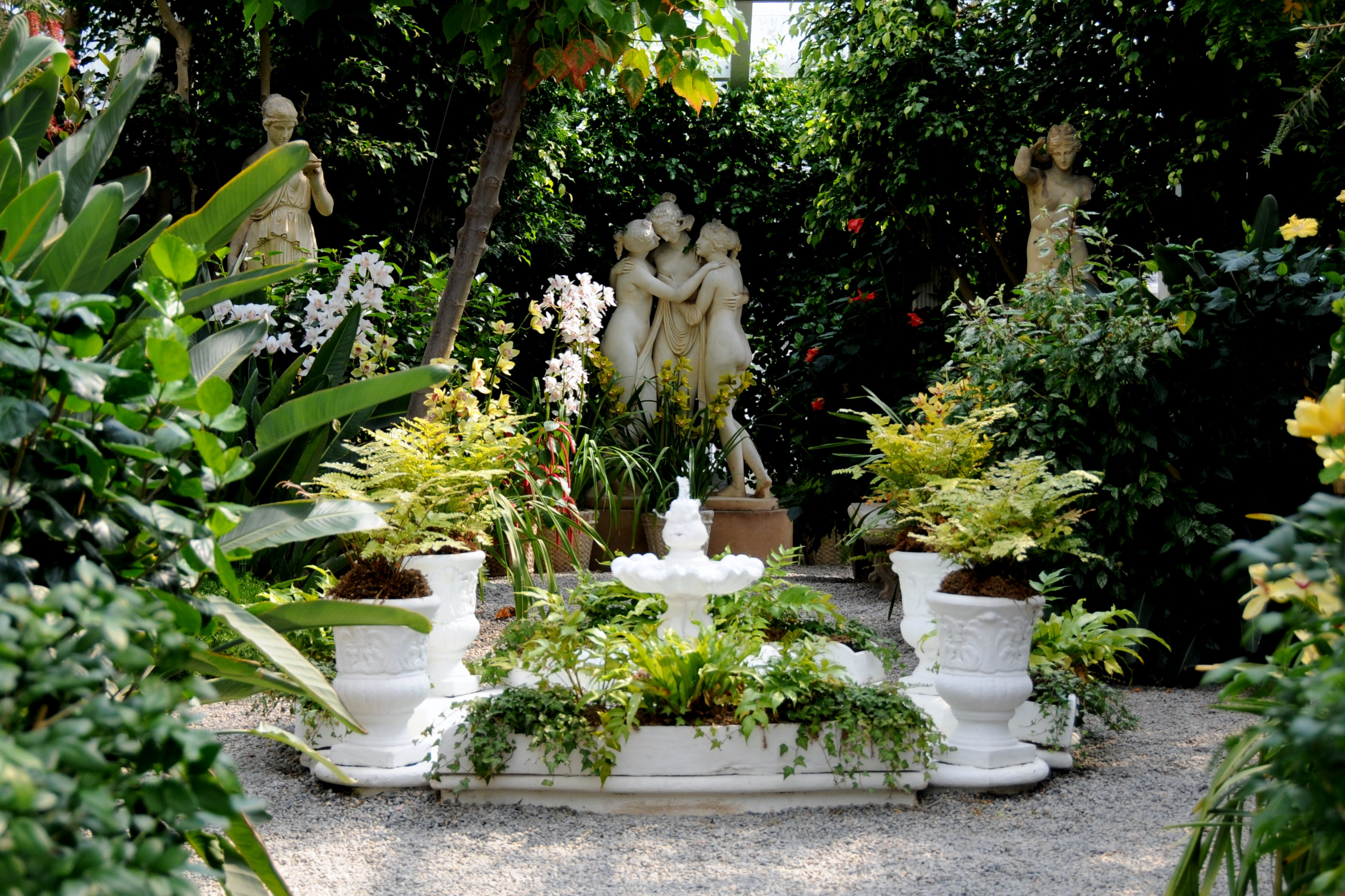 Doris Duke created the Italian Garden to showcase her father's collection of fine replicas of classical sculptures, such as the "Three Graces" by Antonio Canova — at the former Indoor Display Gardens of Duke Gardens in New Jersey. The Duke Gardens featured distinct designs inspired by diverse cultures and regions of the world. Italian, Colonial, Edwardian, French, English, Chinese, Japanese, and Indo-Persian designs were juxtaposed near desert, tropical and semi-tropical environments In 1958, Doris Duke began a six-year process of designing and creating the display gardens, which she named 'Duke Gardens' in honor of her father. She traveled the globe seeking specimens and ideas to complete the gardens, which she first opened to the public in 1964. Note: On May 25, 2008, the Indoor Display Gardens were closed indefinitely by the Trustees of the Doris Duke Charitable Foundation.